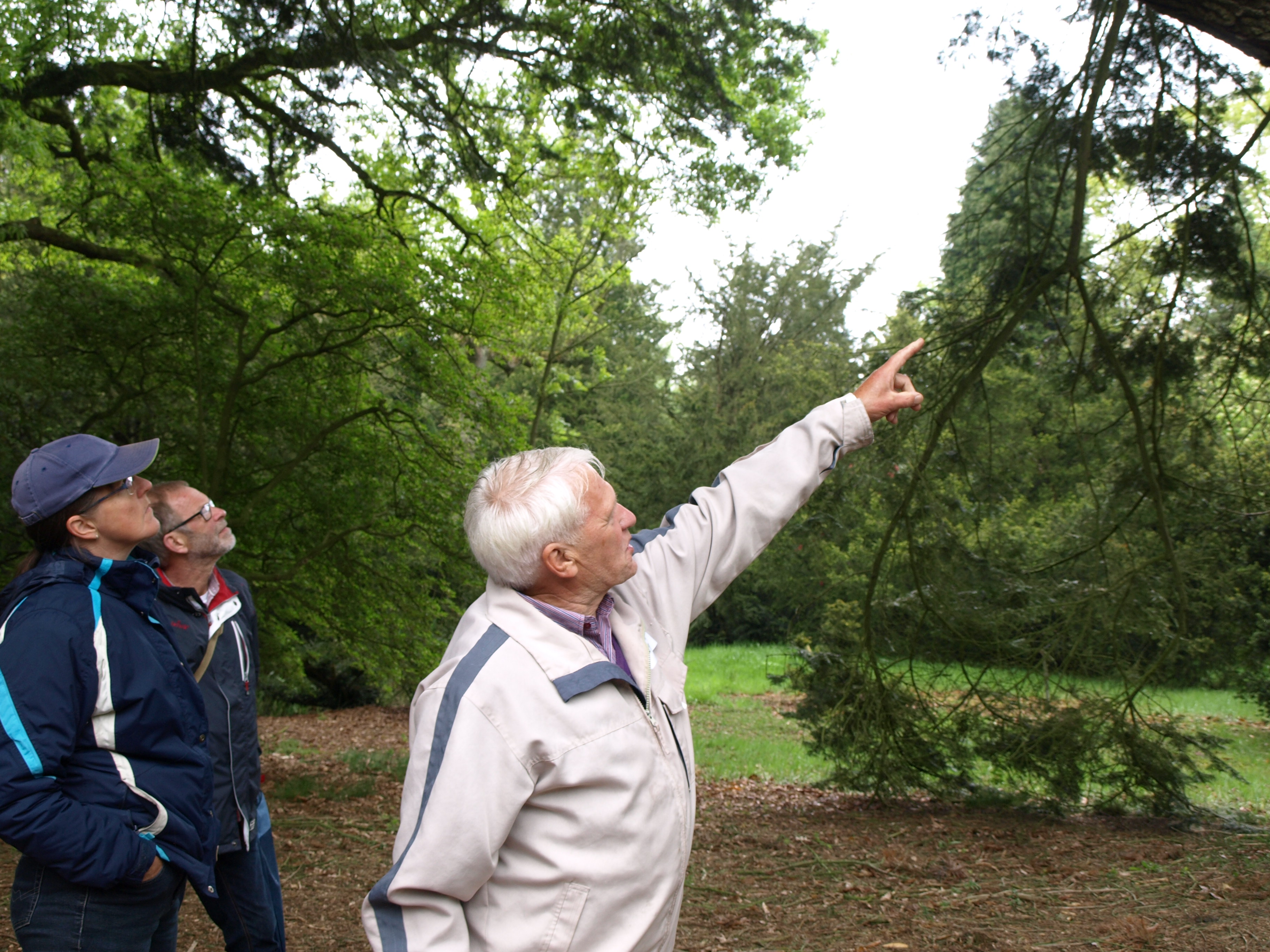 Piet de Jong in Gimborn Arboretum, Nl.